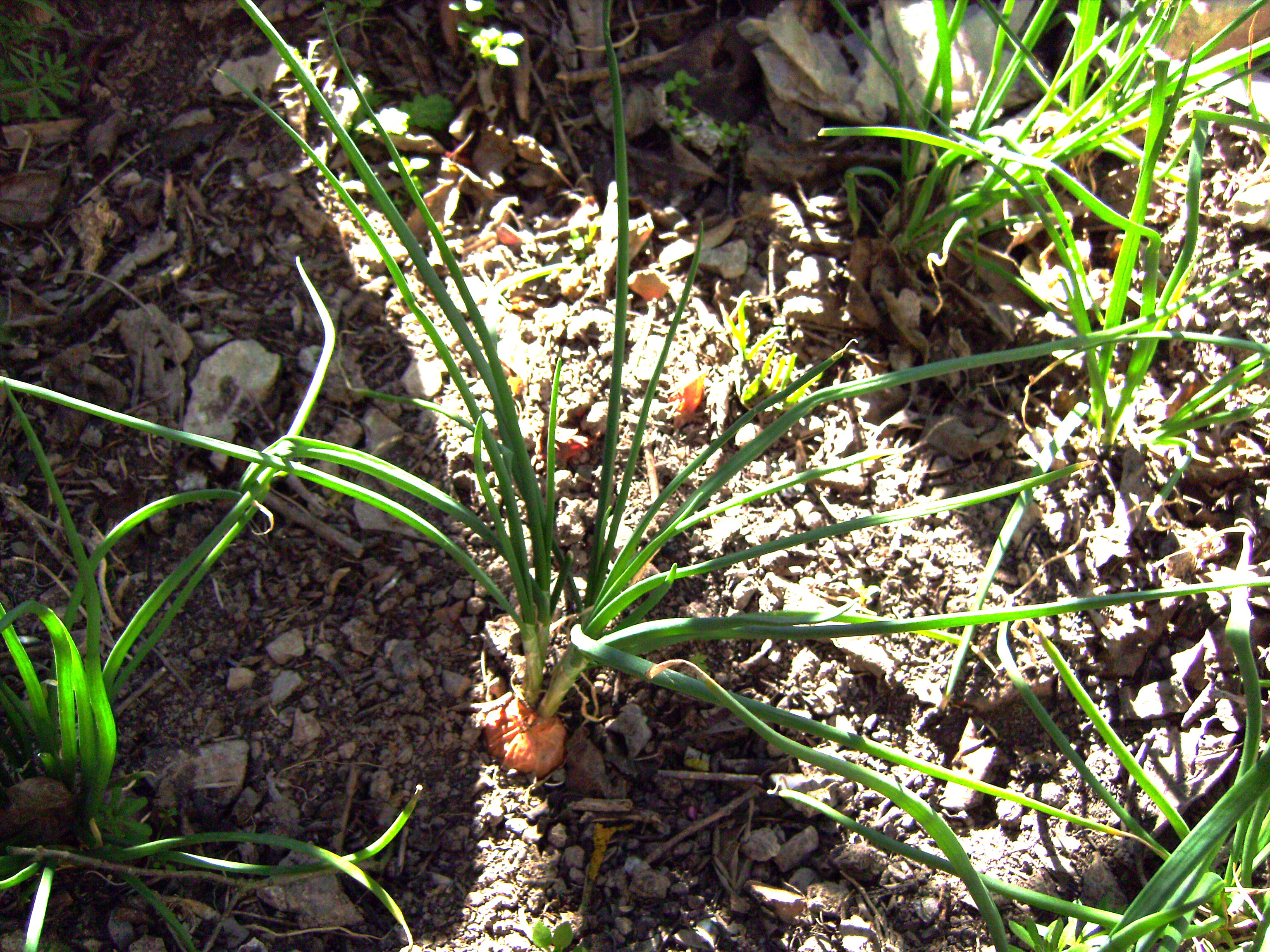 Shallot plant (Allium cepa var. aggregatum) Castelltallat, Catalonia